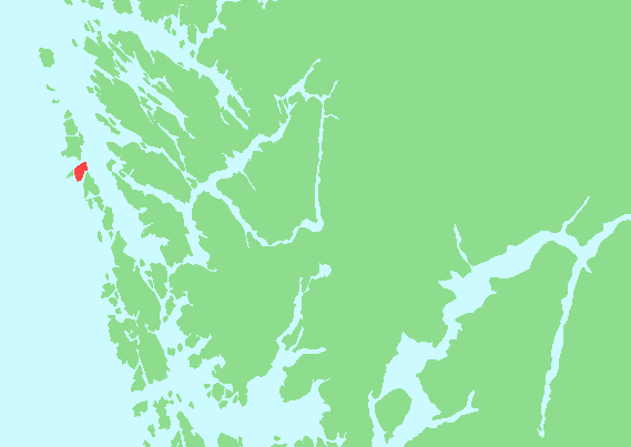 Locator map of One, Hordaland, Norway